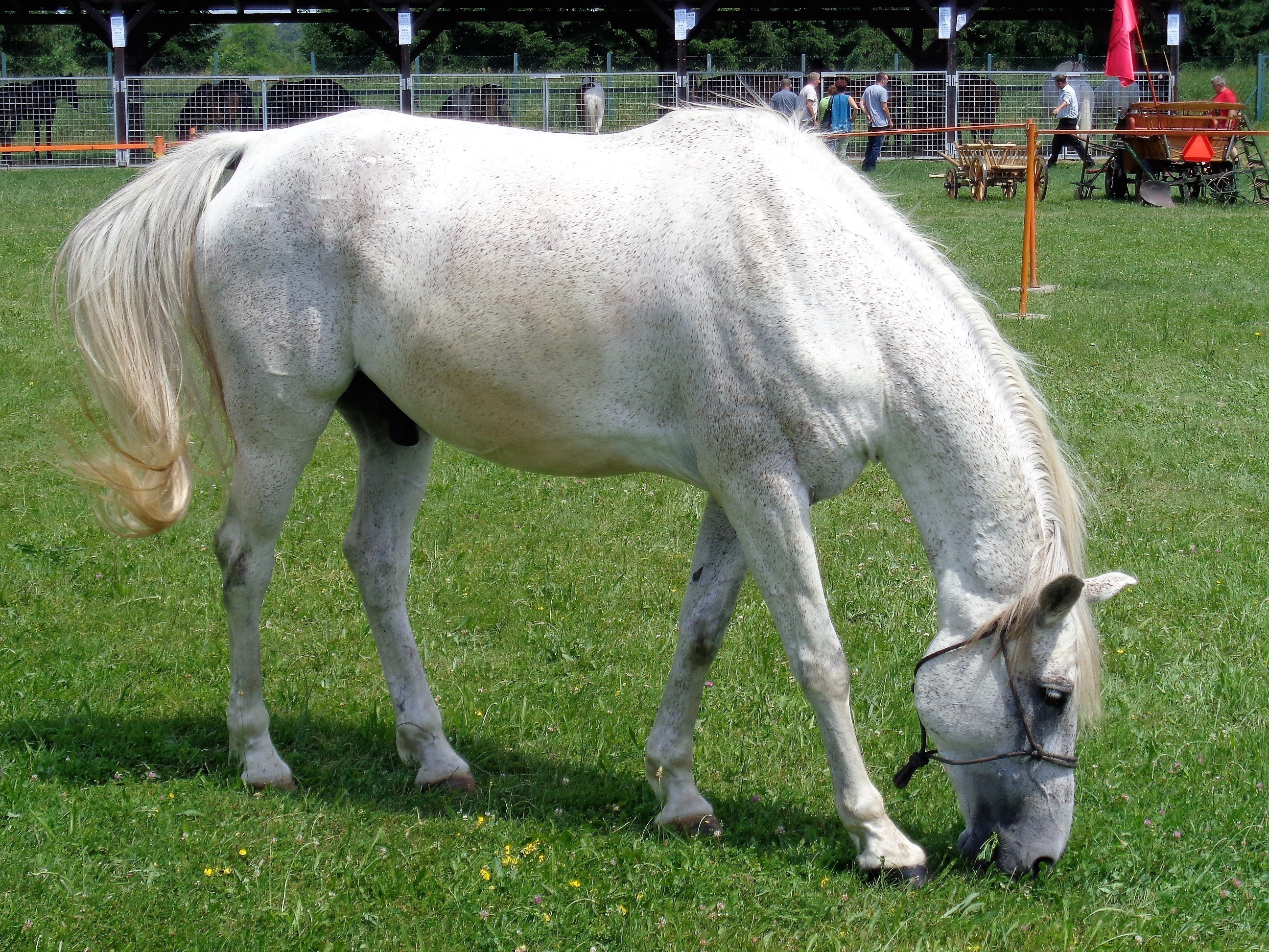 Gidran horse at 2019 MESAP Trade Fair in Nedelišće, Medjimurie County (Croatia), grazing